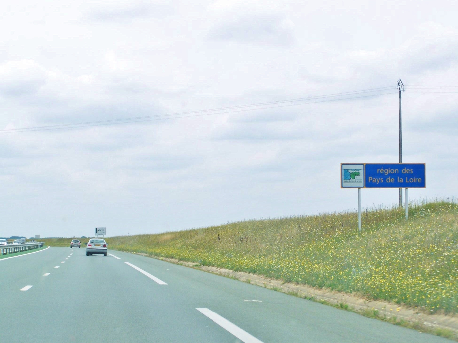 French motorway A83 to Nantes entering the region of Pays de la Loire (department of Vendée).